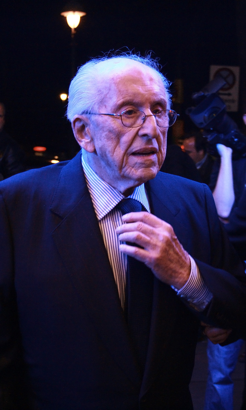 Eric Pleskow at the opening of the Vienna International Film Festival 2012.